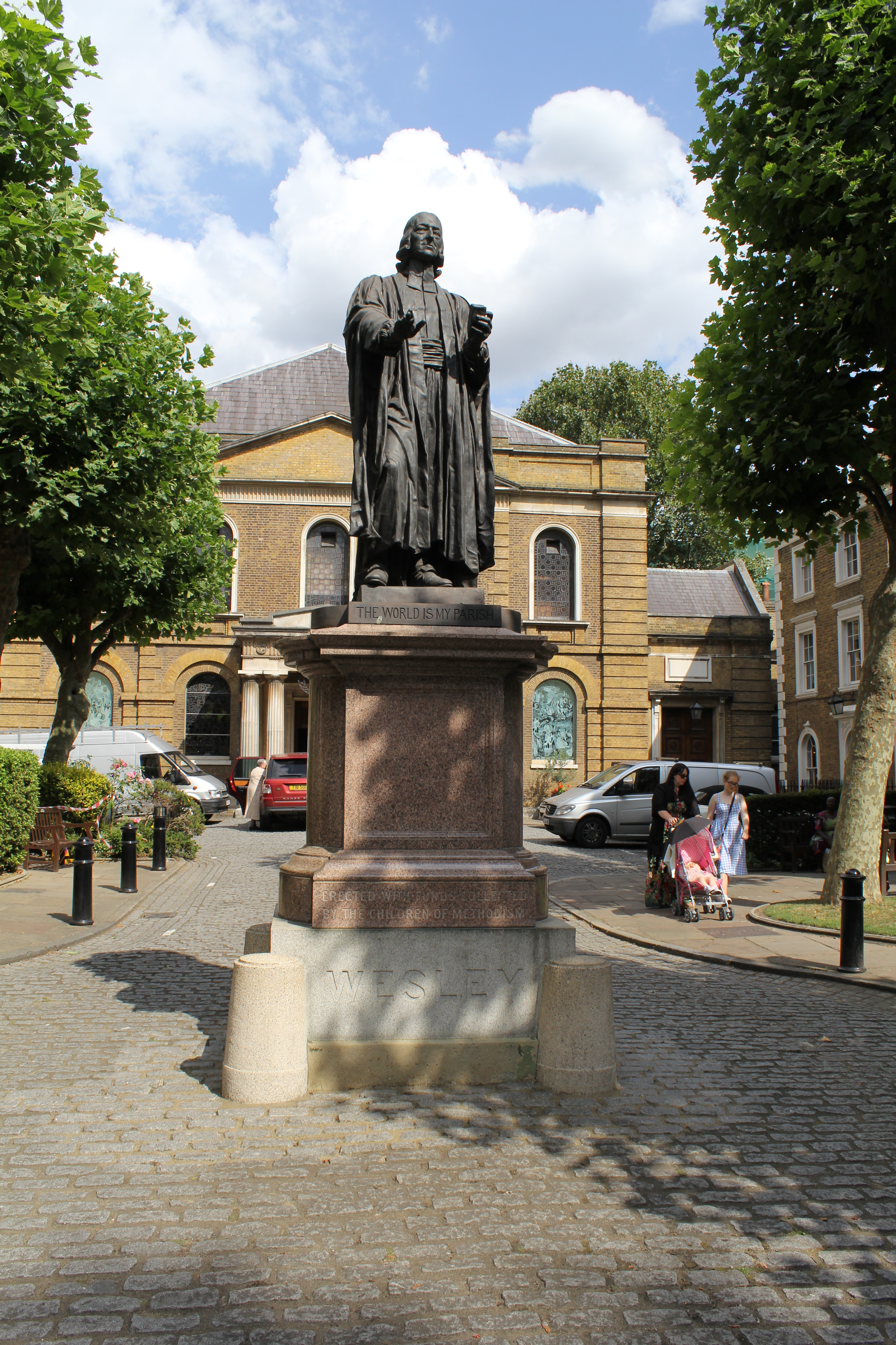 Bronze statue of John Wesley, outside Wesley's Chapel on City Road, London